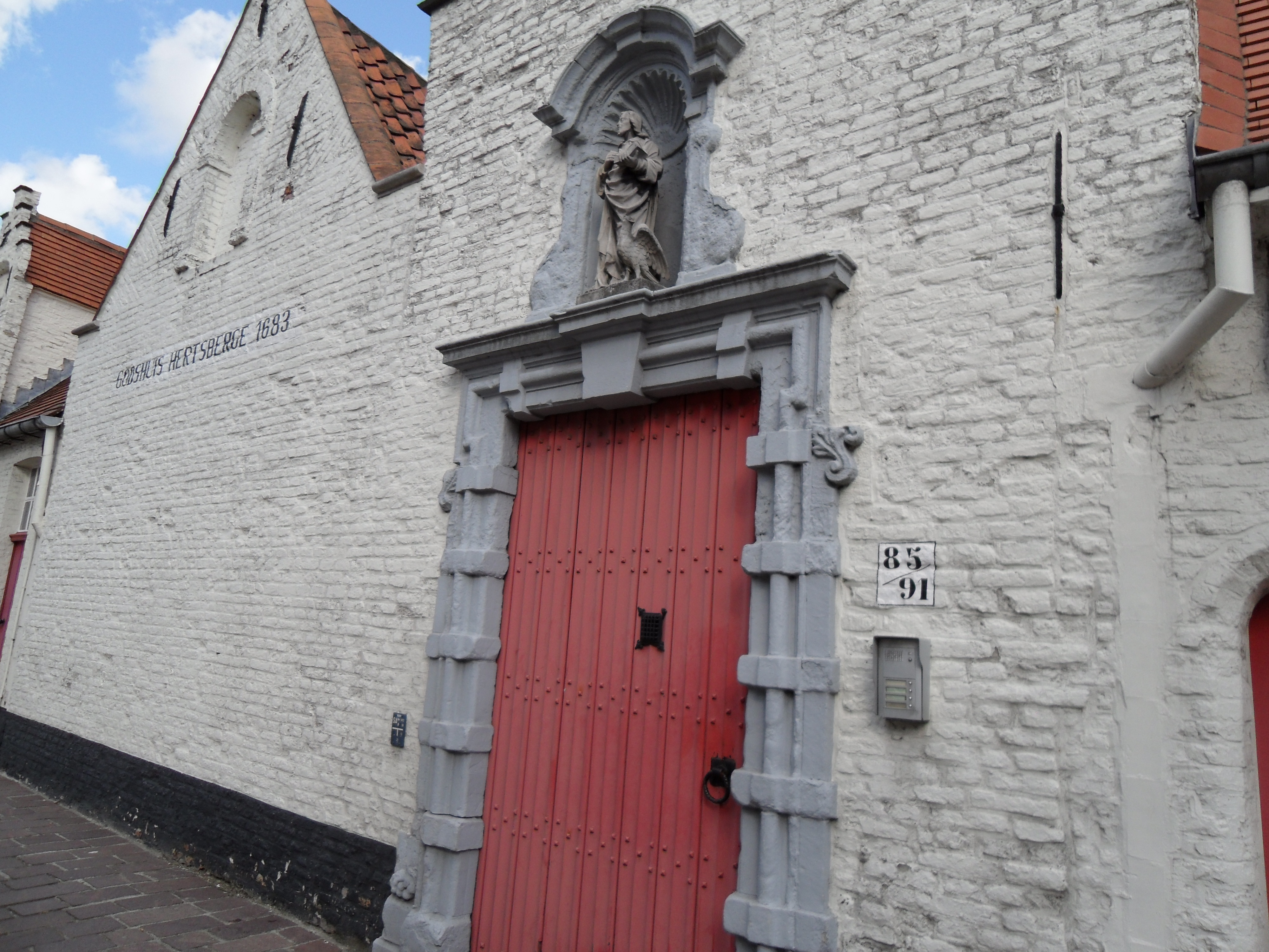 Hertsberge